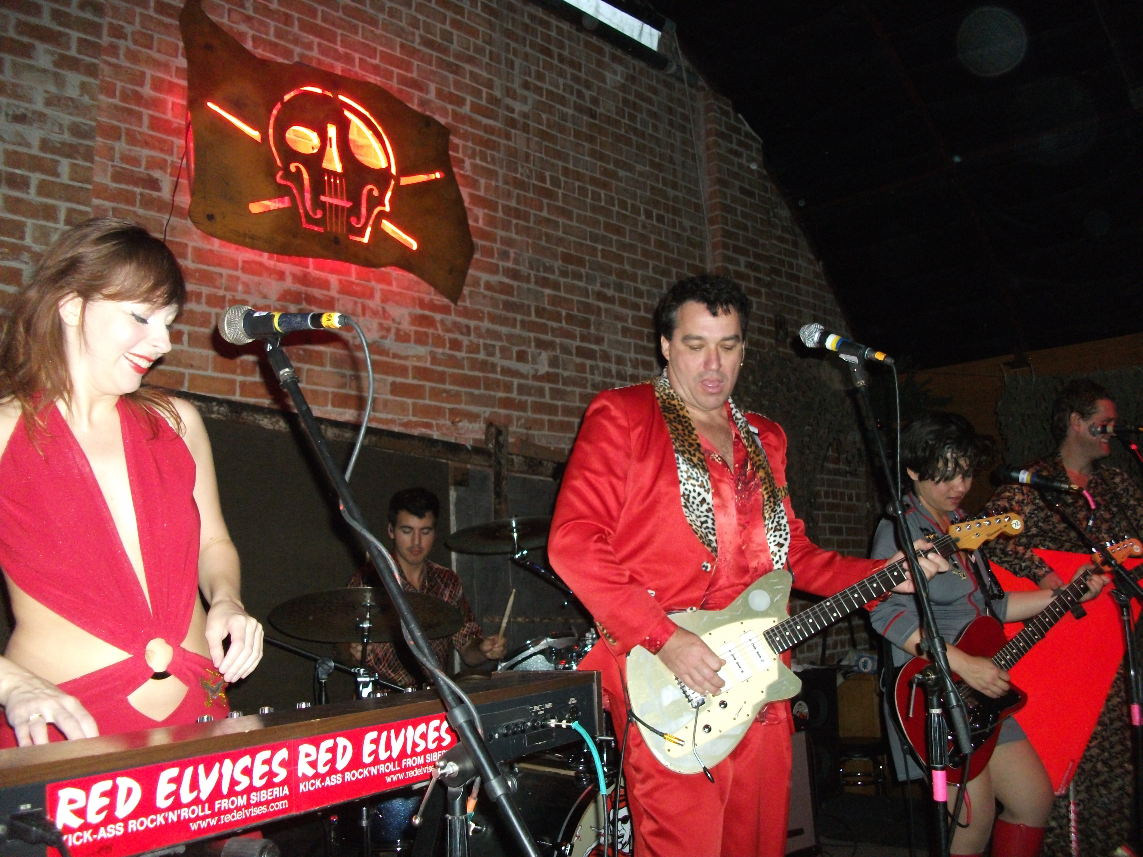 Red Elvises performing at The Hut in Tucson, Arizona on May 19, 2010. L to R: Elena Shemankova, Kyle Crane, Igor Yuzov, Milka Ramos, Oleg Bernov.